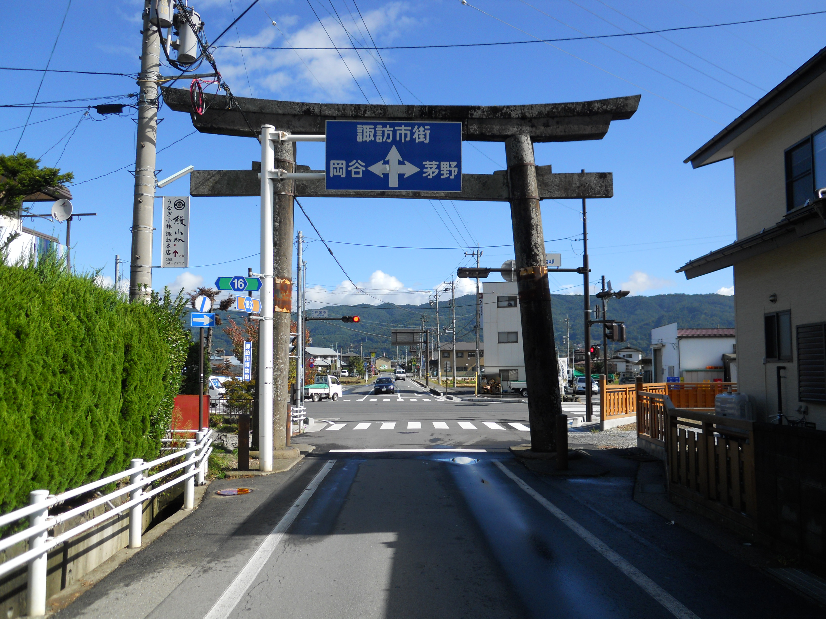 Jinguji Intersection on the Nagano Prefectural Road Route 183 in Suwa City